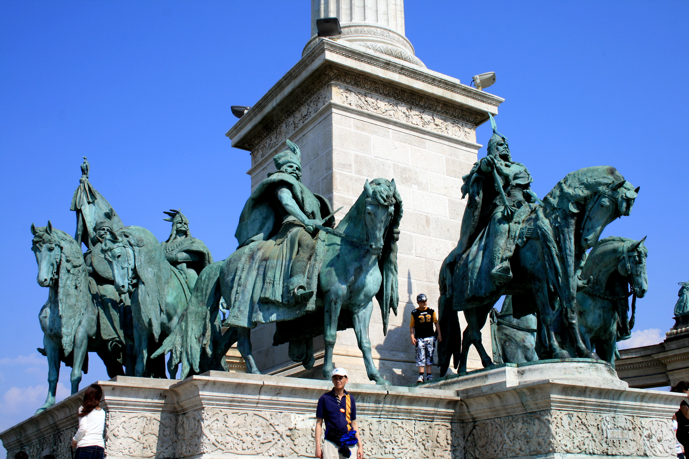 Statues under main column of Millenium Monument on Heroes' square, Budapest, Budapest, Hungary